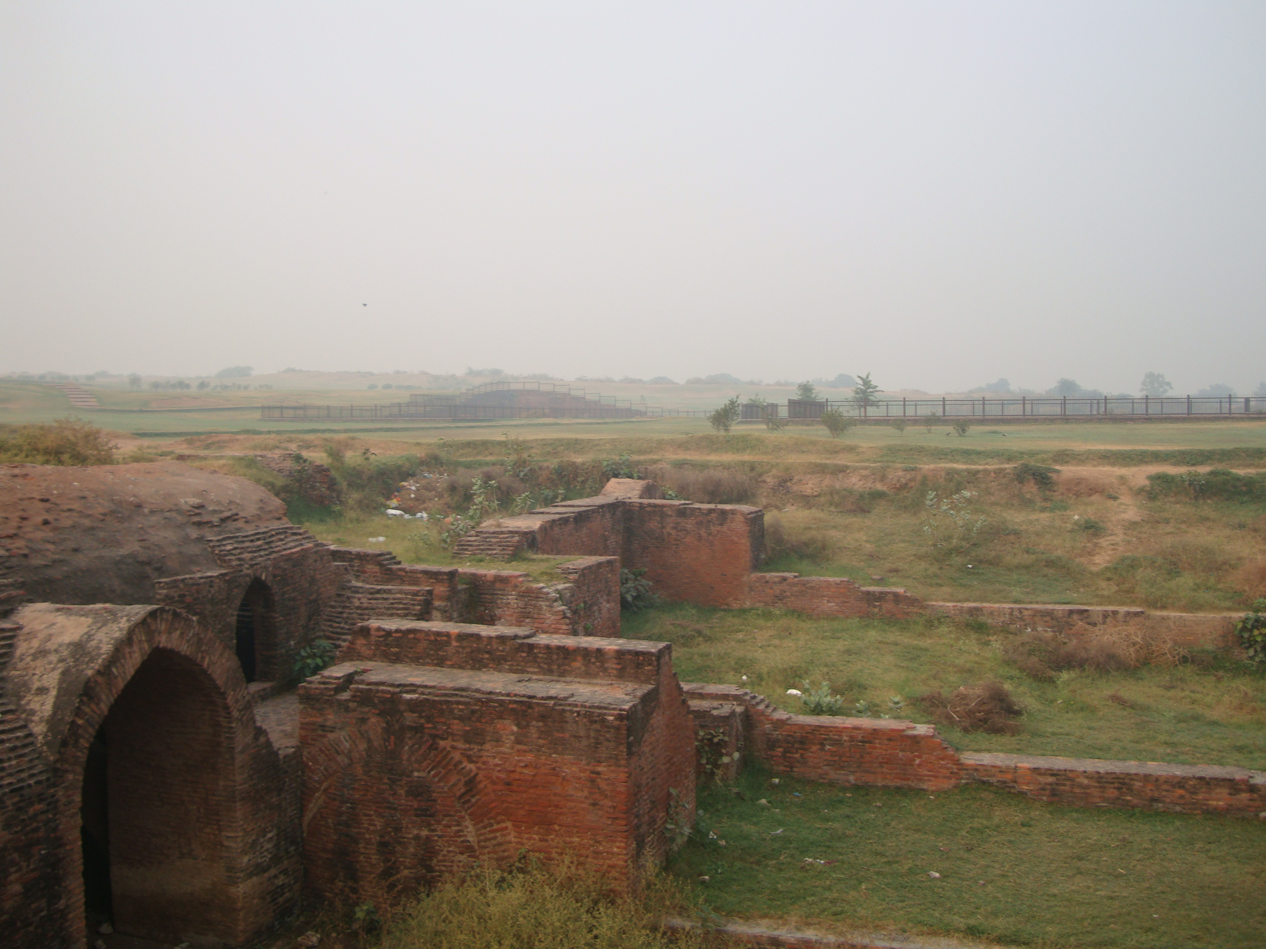 Raja Harsh ka Tila